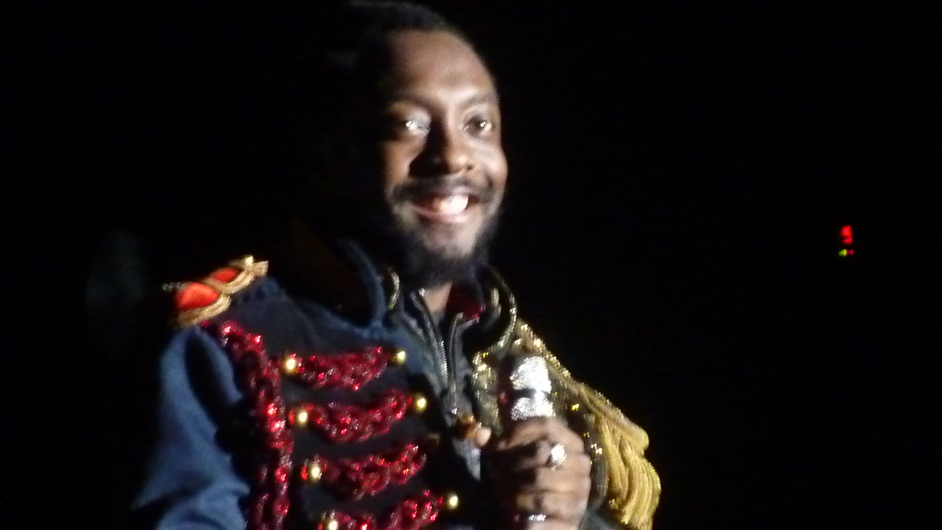 Black Eyed Peas en Chile 2010